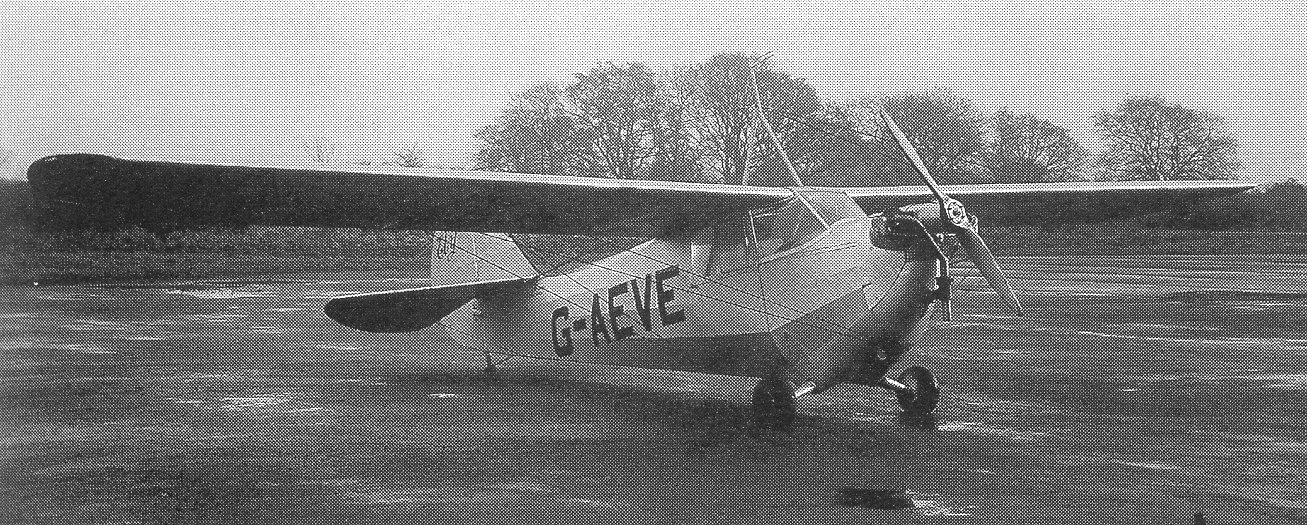 The sole Peterborough (Aeronca) Ely, October 1938